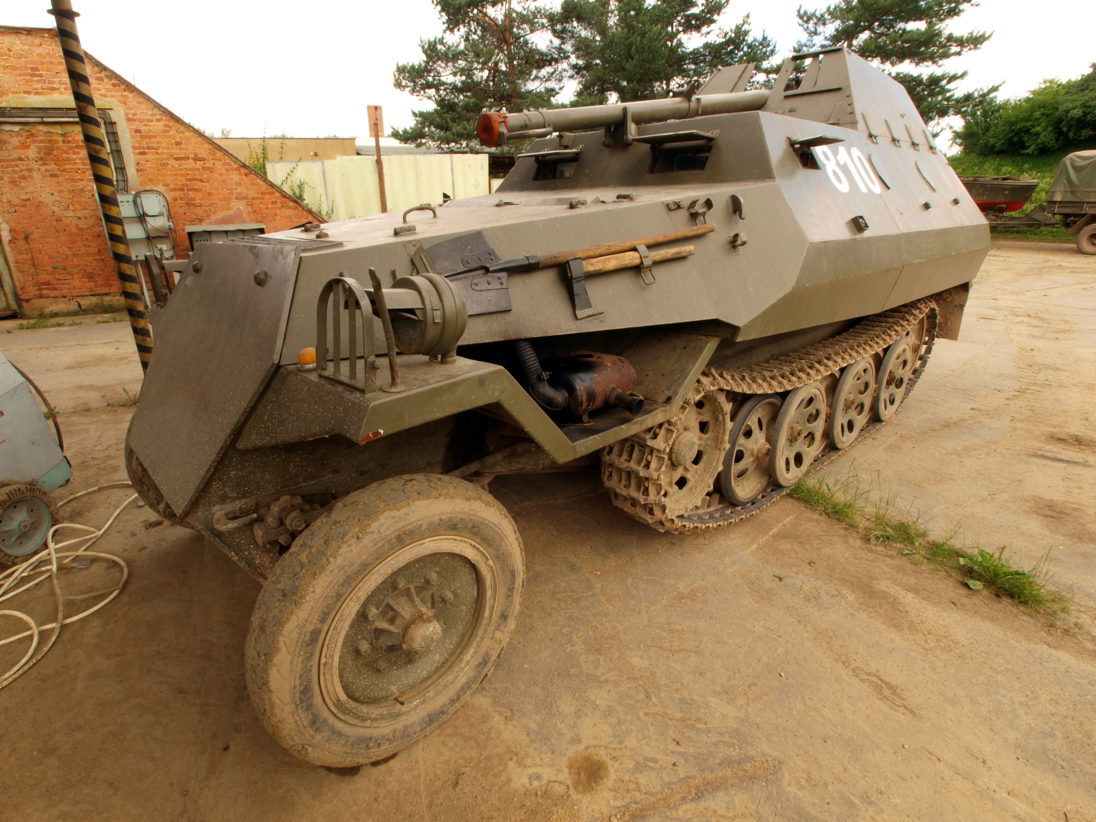 OT-810 with Bezák 82 mm cannon vz. 59